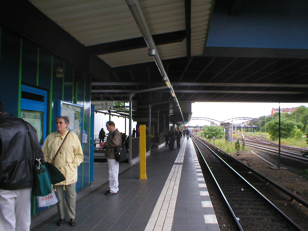 Berlin's suburban rail station Hermannstraße